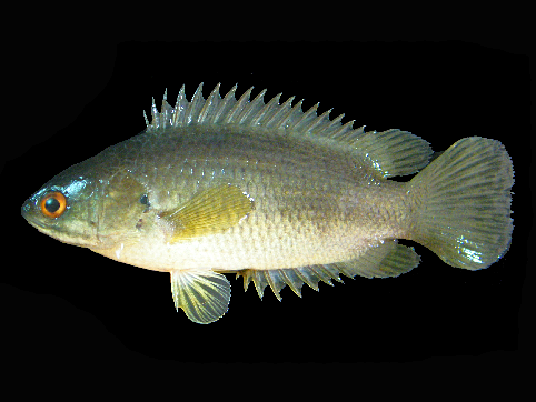 Climbing perch Anabas testudineus from Ranong, southern Thailand.